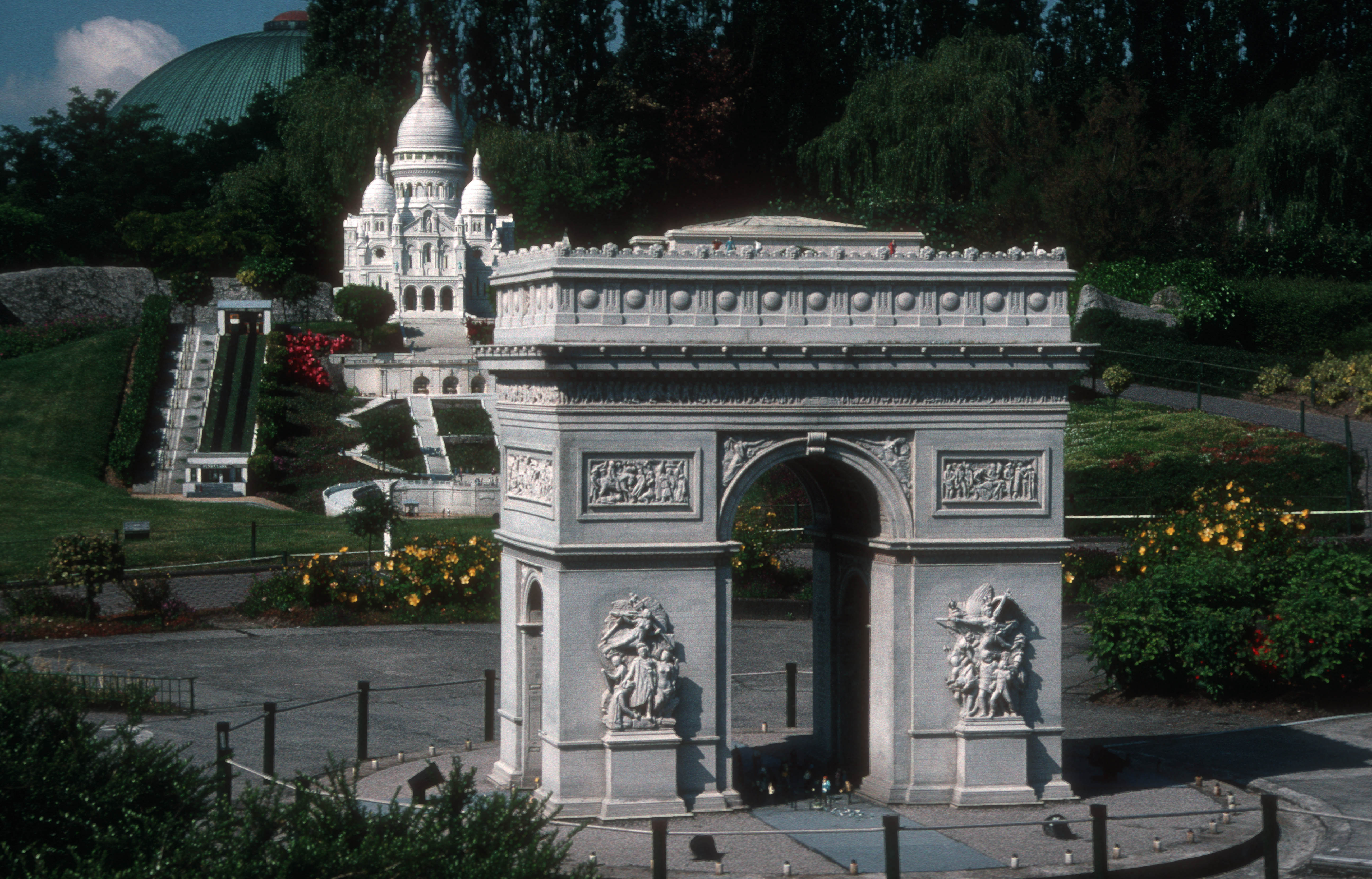 FRANCE'S REPRESENTATION IN MINI EUROPE; EVERY COUNTRY IN THE EUROPEAN UNION IS REPRESENTED (C1997)